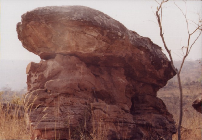 Pebbly arkose outcrop, Ndepa, lower Kariba, Zimbabwe